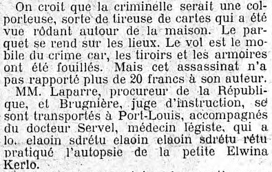 “elaoin sdrétu”, equivalent of ETAOIN SHRDLU on French Linotype machines.